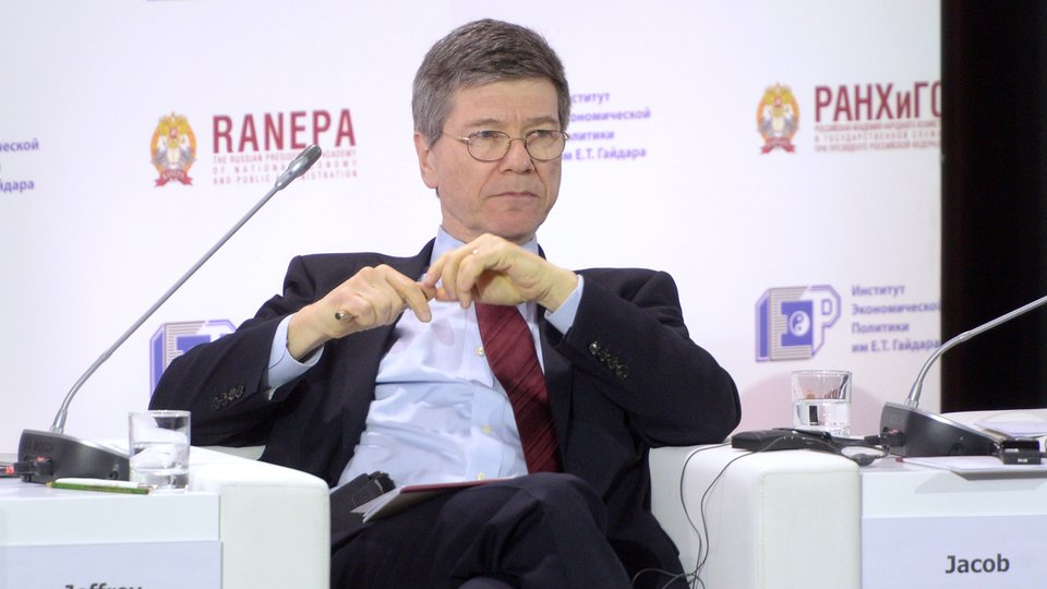 The American economist Jeffrey Sachs on the fifth Gaidar forum in Moscow. January 2014.